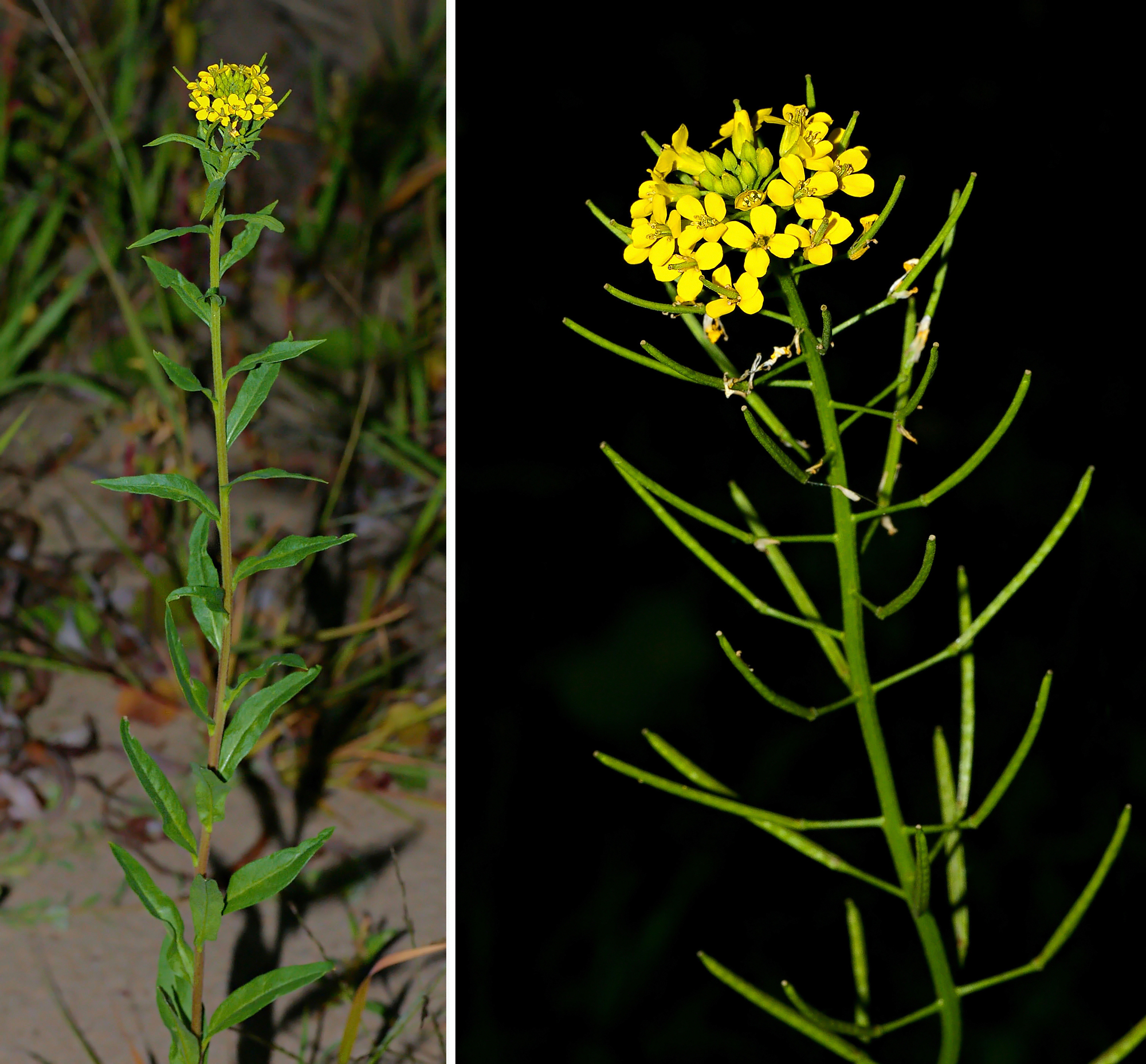 Habitus and inflorescence of Treacle-mustard, Erysimum cheiranthoides.